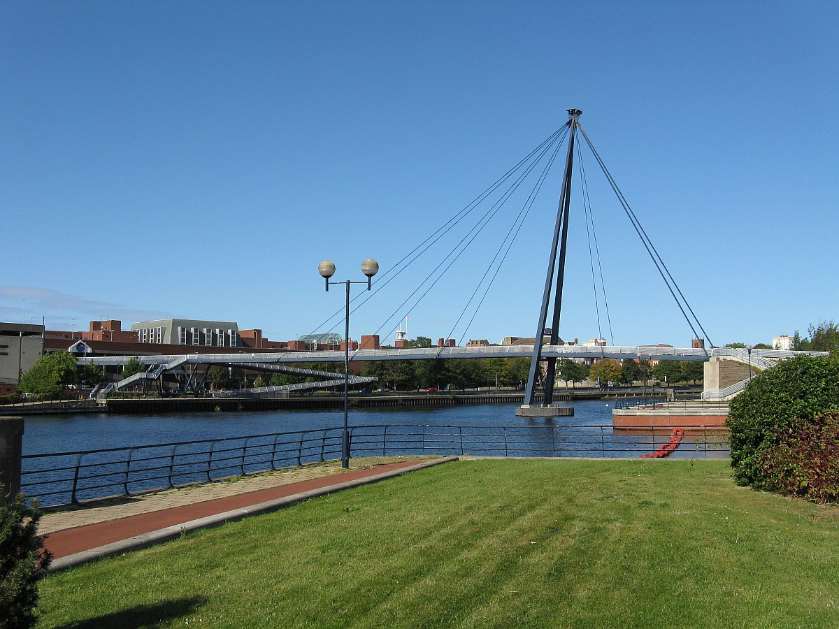 Teesquay Millennium Footbridge from the east bank of the river Tees.